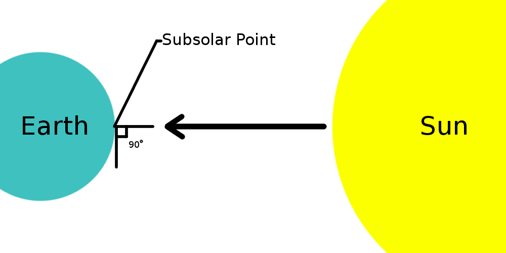 A basic diagram showing where the subsolar point is on the Earth's surface